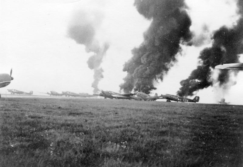 Holland. Rotterdam operation, Delft aerodrome, view of burning Ju-52 aircraft shot into flames after landing. Shortly after the landing of the first aerial transports.